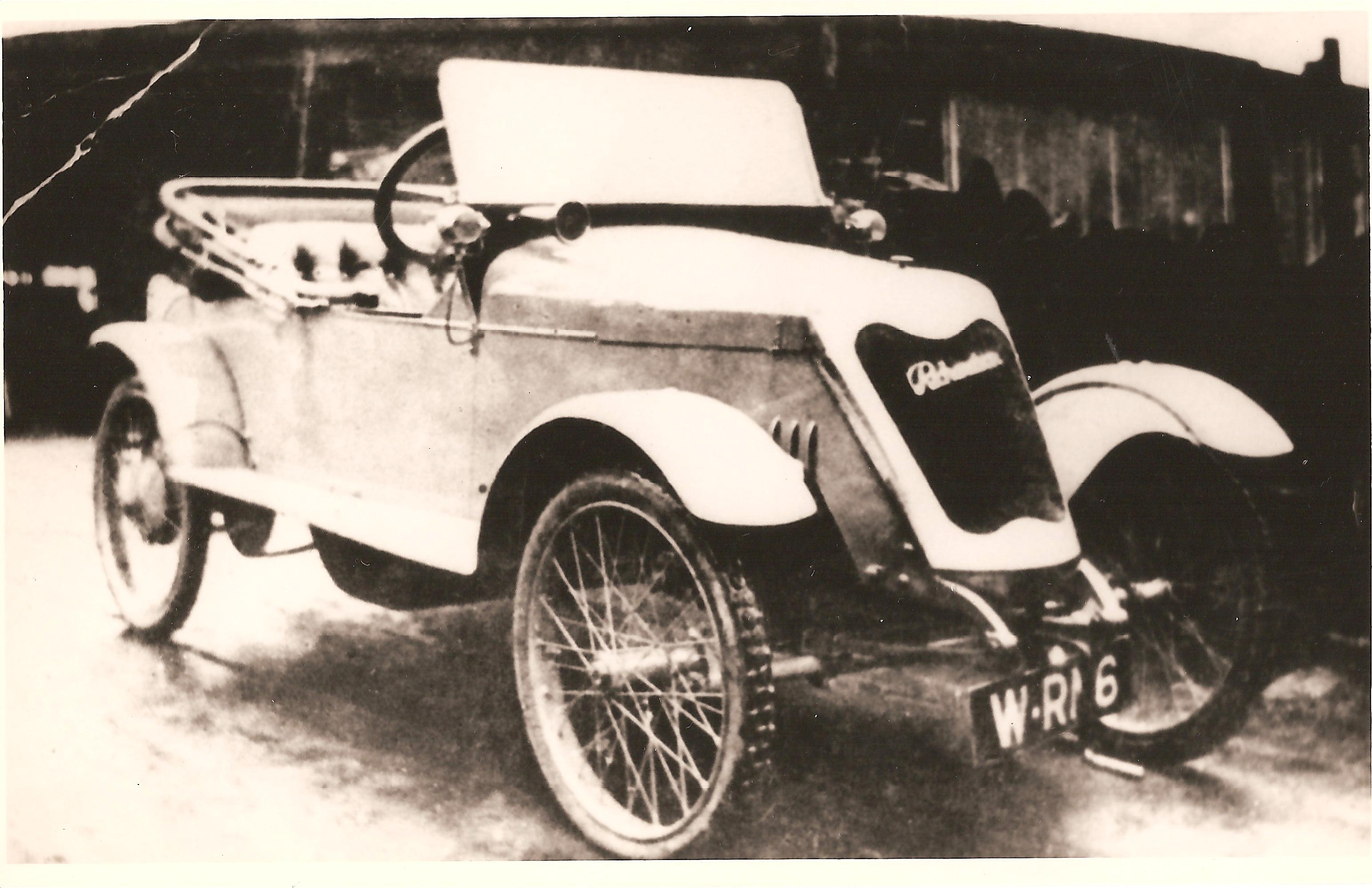 Richardson Light Motor Car - Circa 1918. Made in Sheffield by Charles Ebenezer Richardson and the cheapest car on the UK market at the time. This one was owned by Charles Edgar Richardson of Clifton.